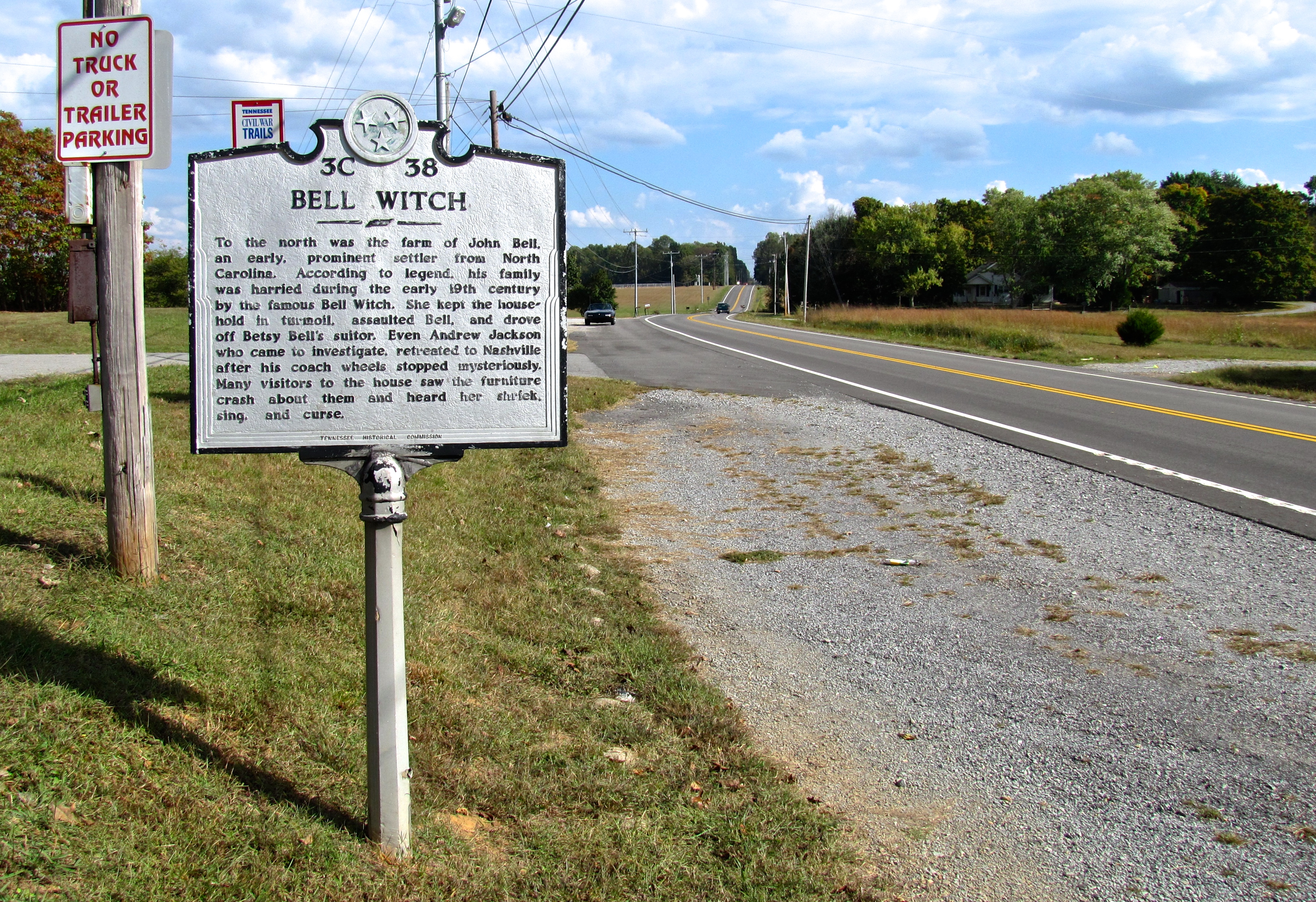 Tennessee Historical Commission marker along U.S. Route 41 in Adams, Tennessee, United States, recalling the Bell Witch haunting.